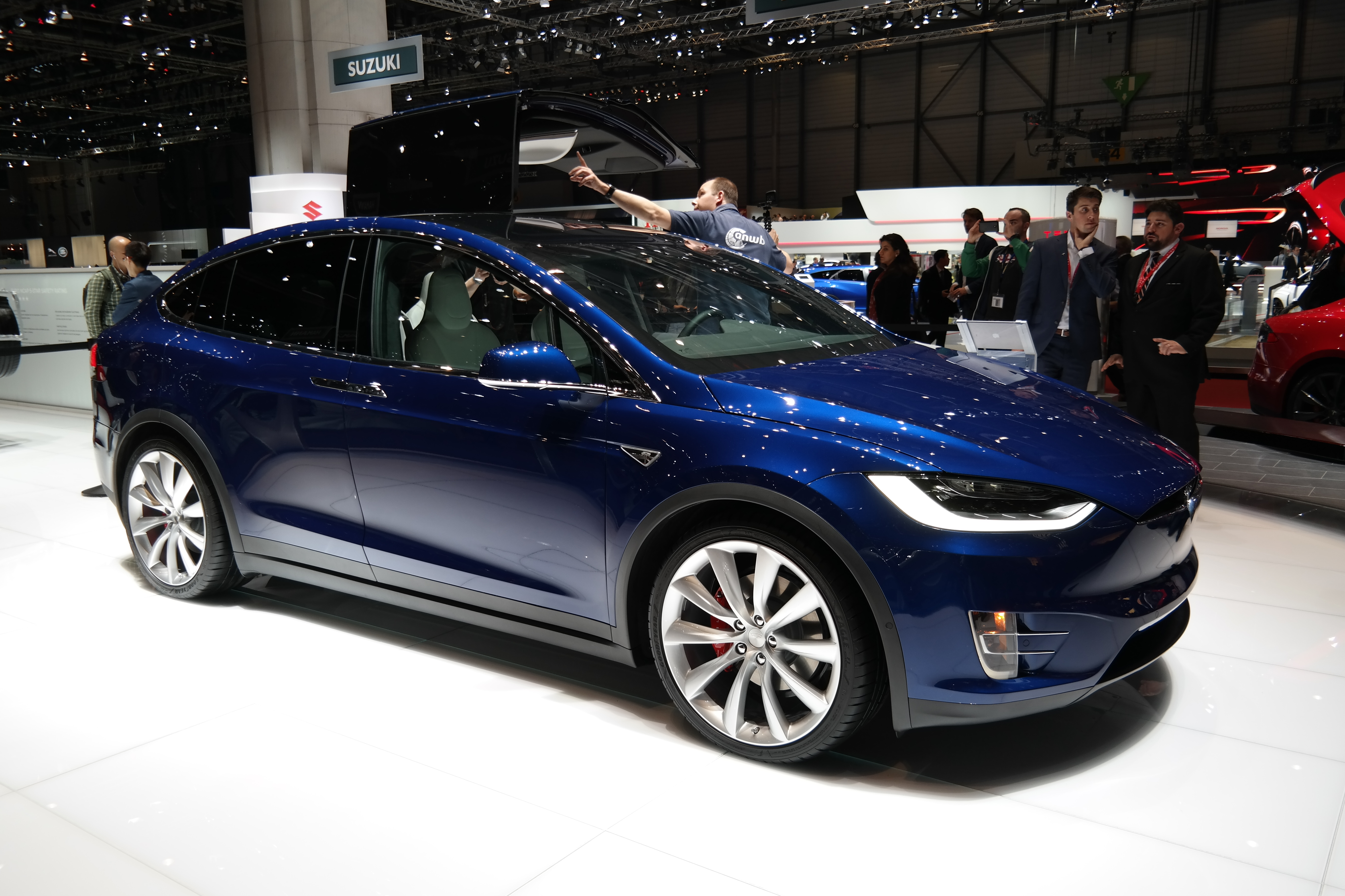 Geneva Motor Show 2016 (photo taken on the first press day)